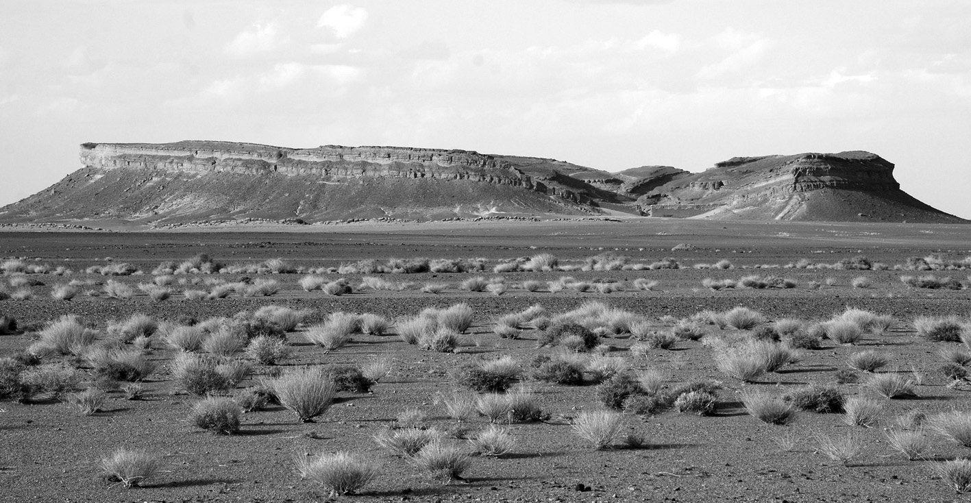 View of Jebel Mudawwar (Gara Medouar), Morocco, from the south-west; photo by Chloe Capel